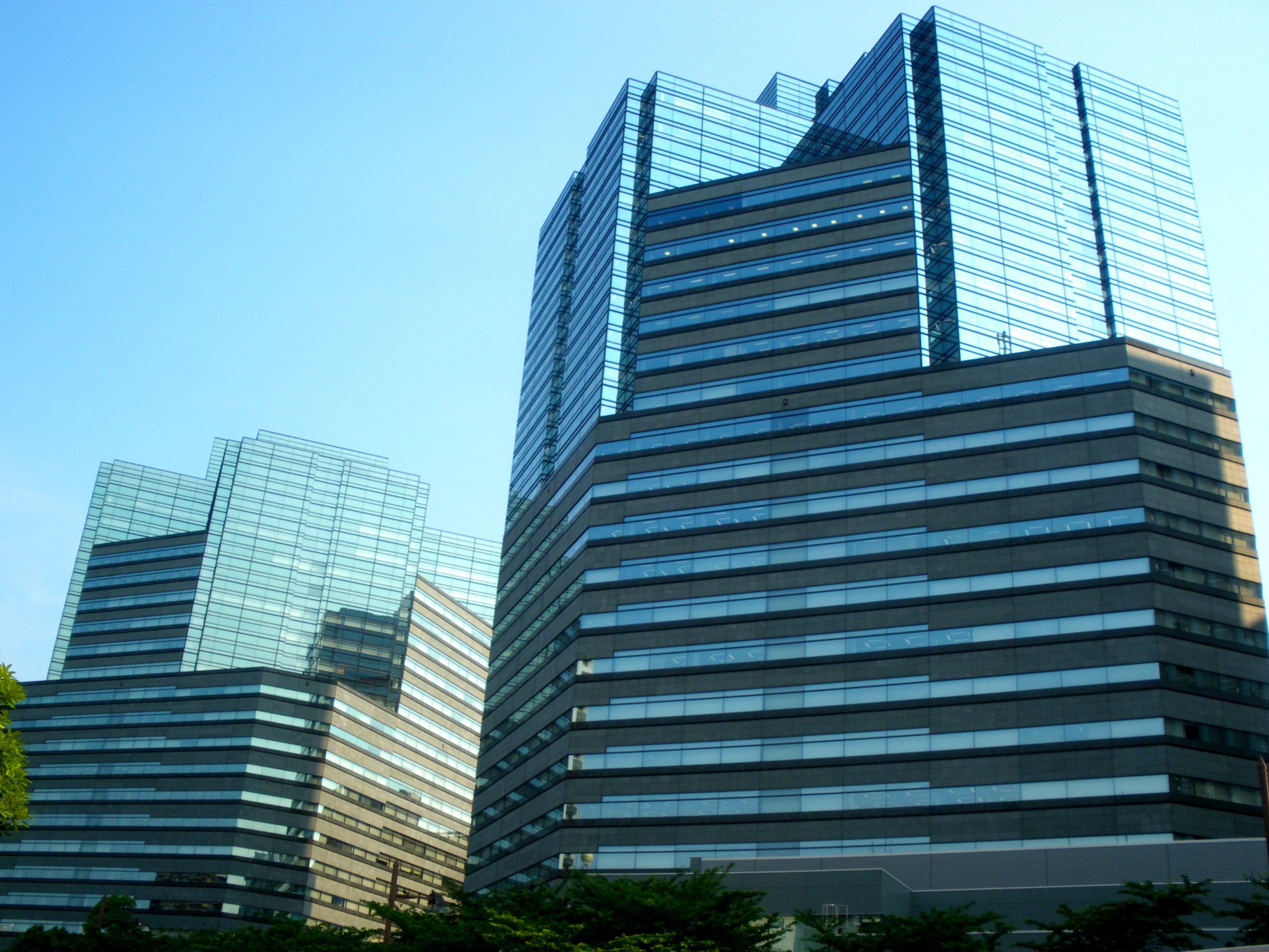 A photo of an overview of GATE CITY OHSAKI(right:west tower,left:east tower),Ohsaki,Shinagawa-ku,Tokyo,Japan